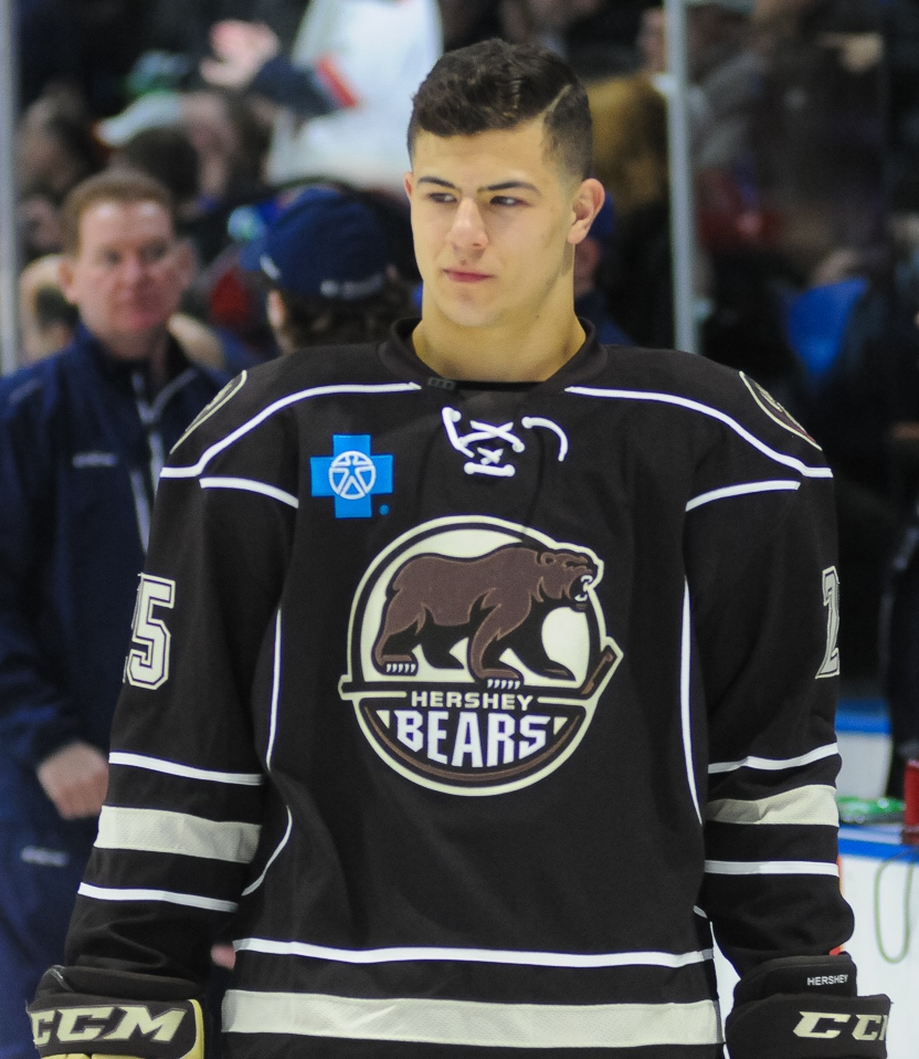 Connor Carrick during the 2015 AHL All star skills competition